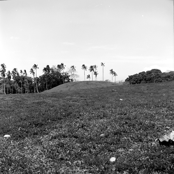 A large mound south of the Laupule stream, Vailele, Samoa 1957. Gagana Samoa: Le tia tele latalata i le vai Laupule i Vailele, Upolu, 1957.